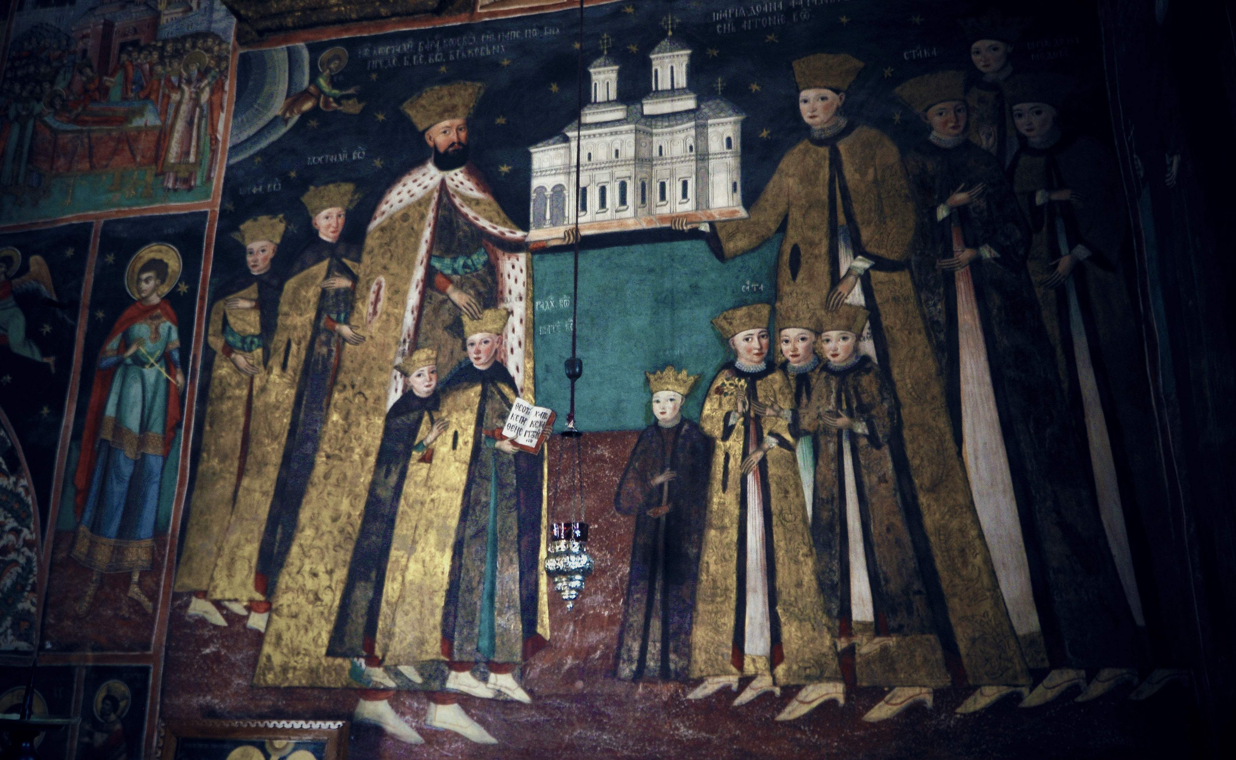 ex-voto mural [votive painting] of Brancoveanu family as main donors at Hurezi monastery [1690 - 1709]